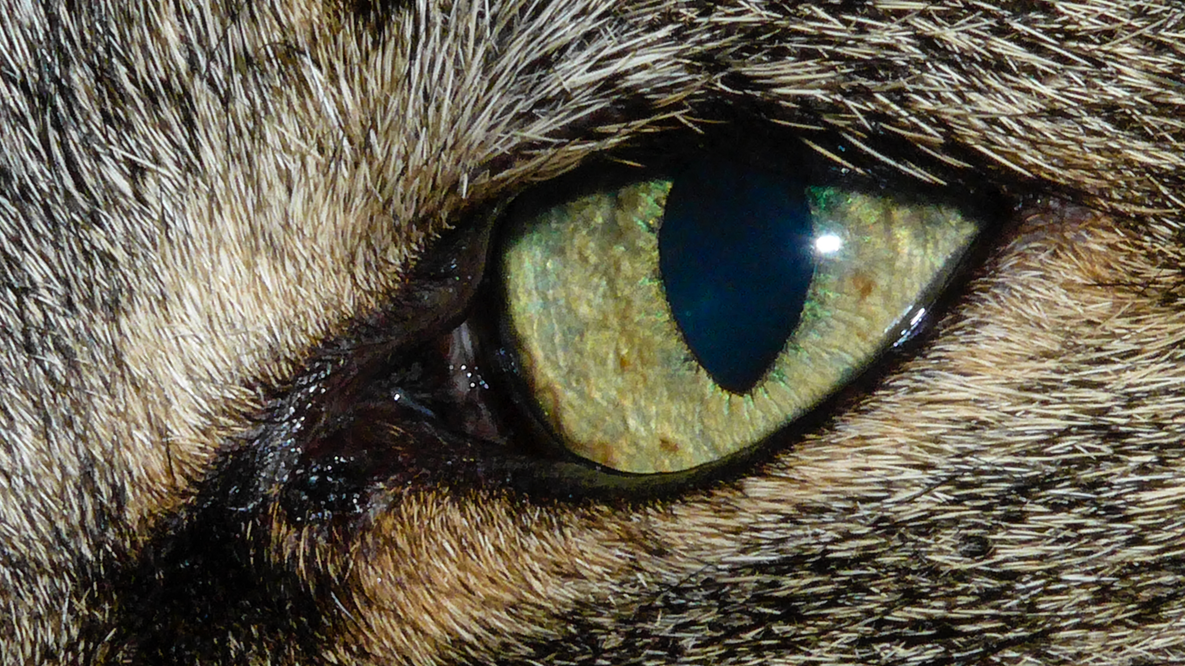 Left eye of a ca. eight years old tomcat.